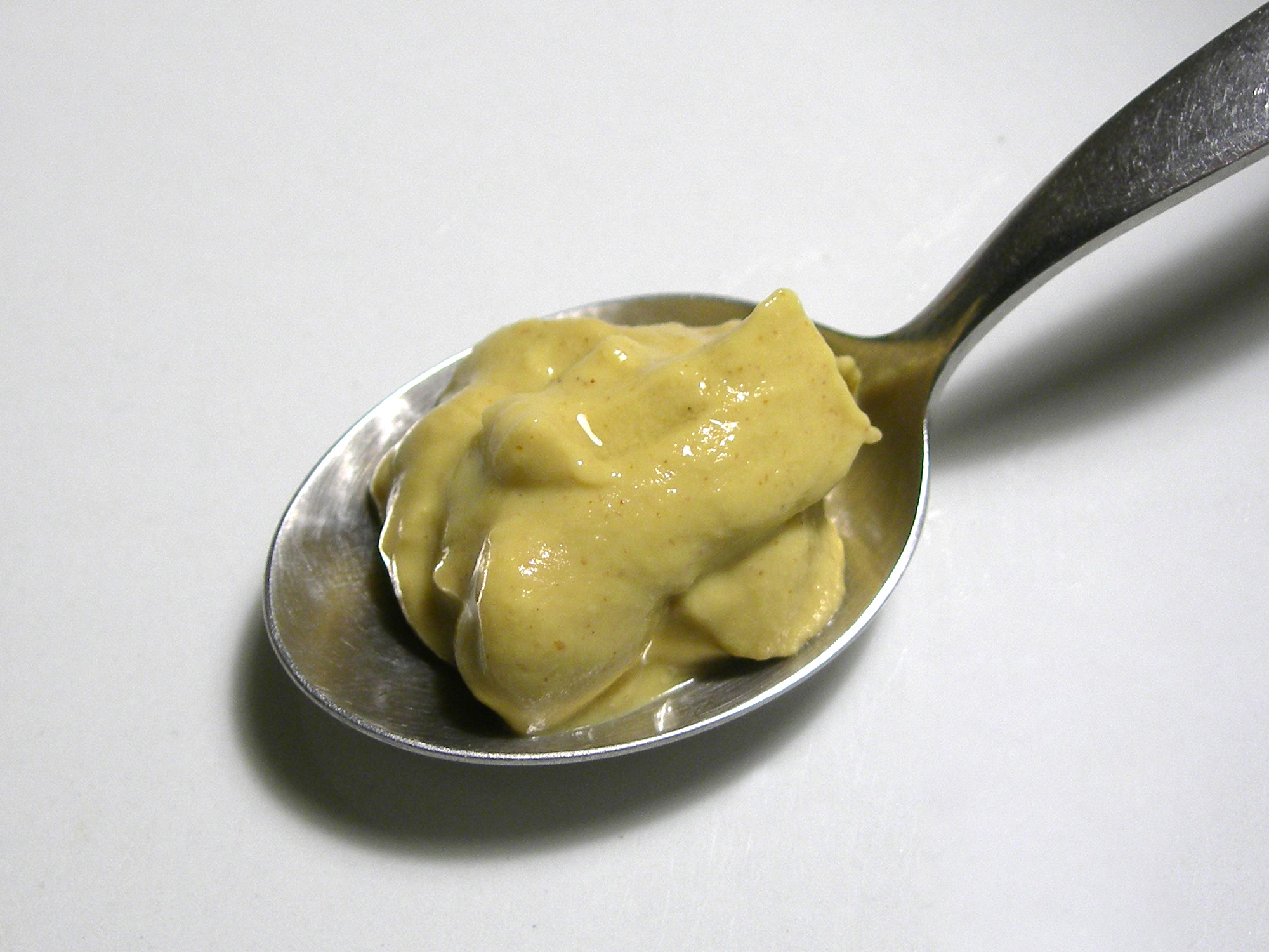 Dijon mustard on a spoon.